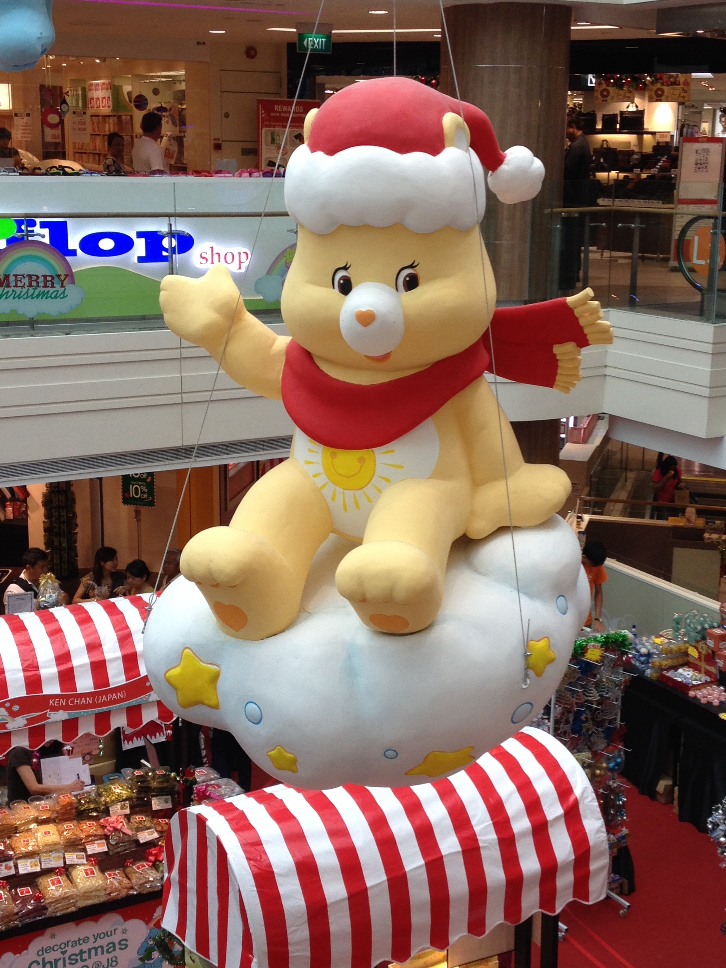 Funshine Bear from Care Bear series, as part of the Christmas decoration in Junction 8, Singapore in Dec 2013.